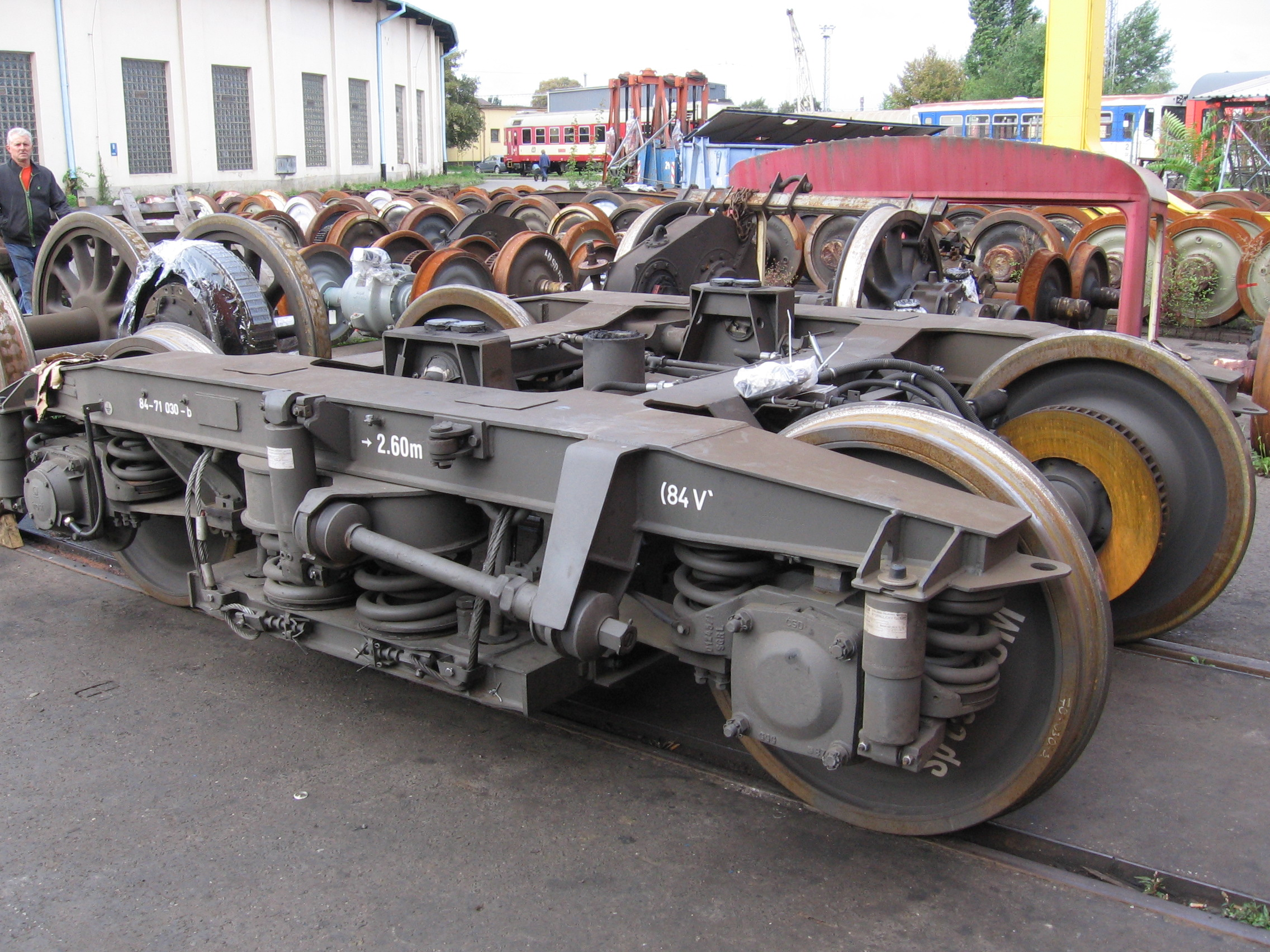 Bogie GP 200 of Class Bbdgmee236 coach